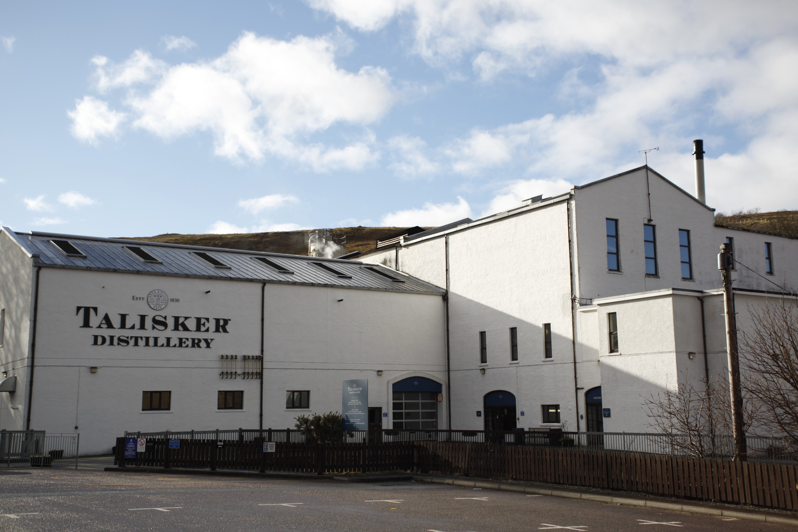 The Talisker Distillery in Carbost, Isle of Skye, Scotland